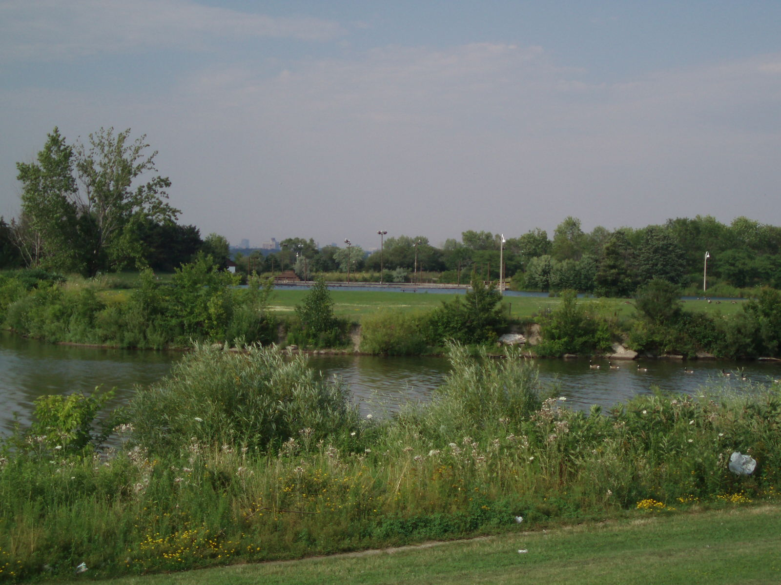 author: Rayson